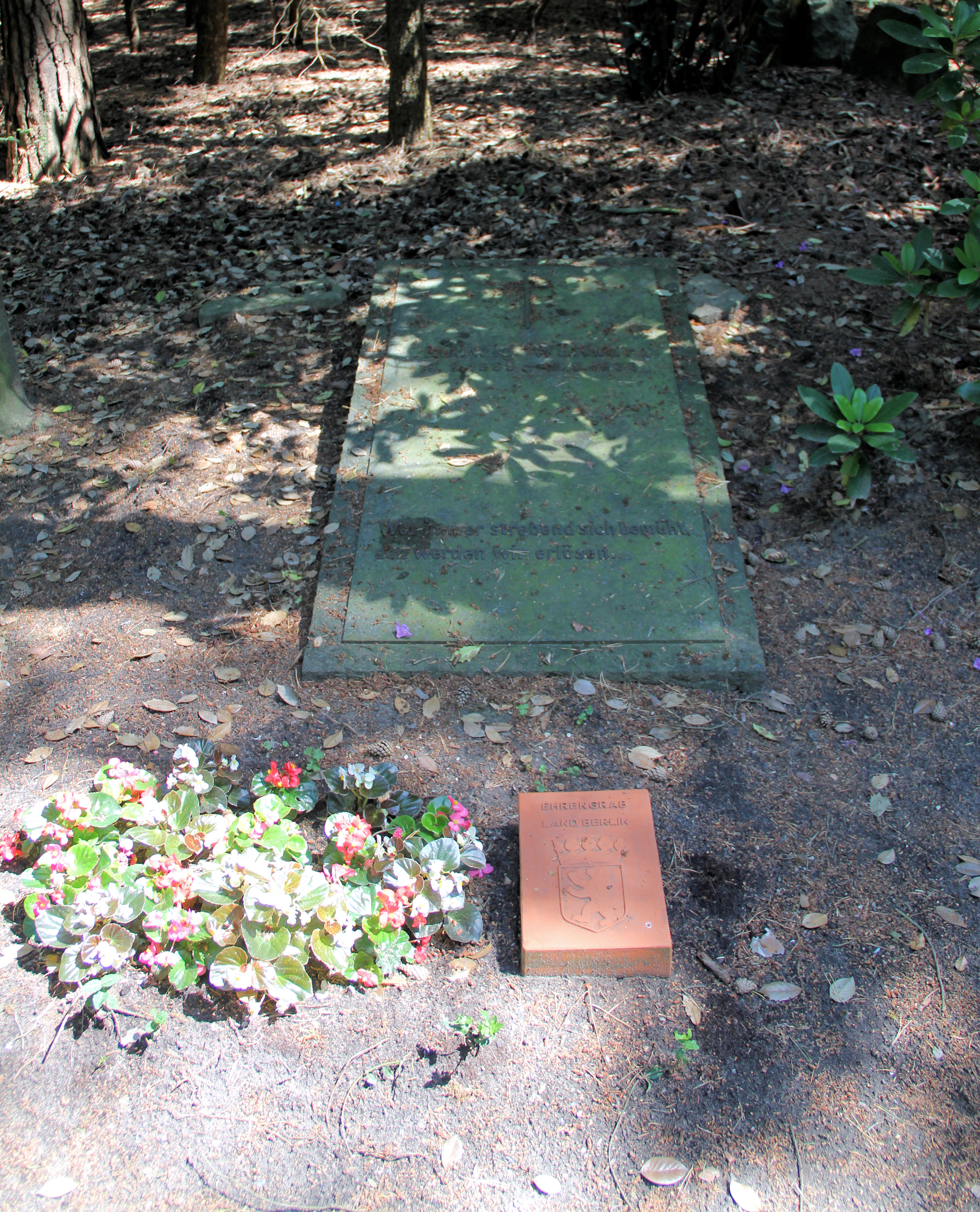 "Ehrengrab" (grave of honor), Ludwig Wüllner, Thuner Platz 2-4, Berlin-Lichterfelde, Germany Koordinate:52°25′24″N 13°17′45″E / 52.42333°N 13.29583°E